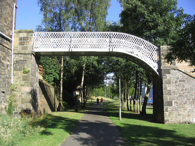 Footbridge in Galashiels over the former Waverley railway line. The Waverley line ran from Carlisle to Edinburgh and was closed on 6th January 1969. The line through Galashiels has been converted into a footpath but plans are underway for a possible reopening of the line between Edinburgh and Tweedbank near Galashiels around 2011.